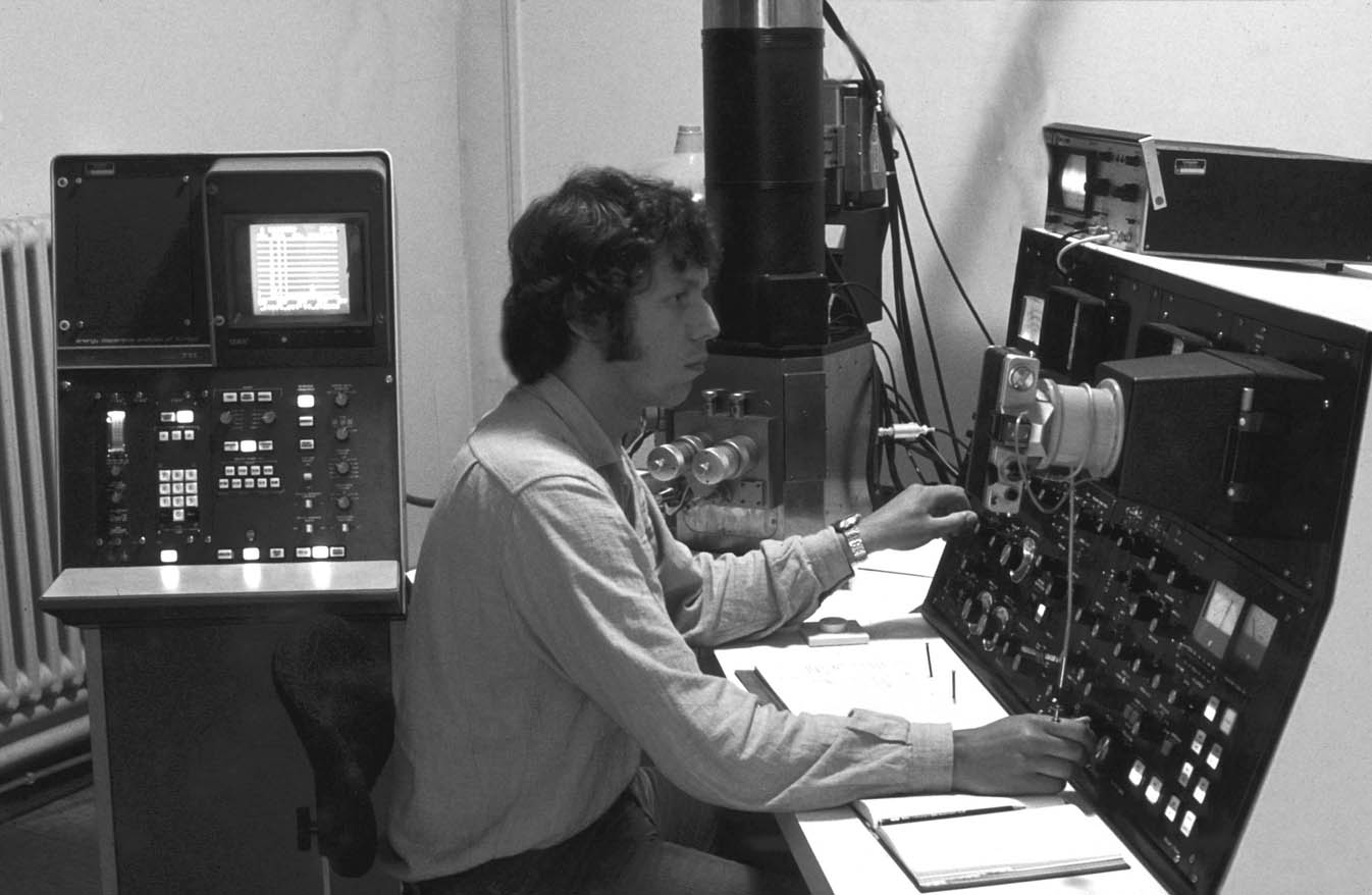 Scanning electron microscope (SEM) at the Geological-Palaeontological Institute (GIK) of Christian-Albrechts-University, Kiel, Germany; SEM type is a Cambridge Stereoscan 150S, operated from 1978 to 1993 at GIK. Middle background is the column producing the electron beam with the sample chamber at the bottom and two buttons for manipulation of the sample orientation. On the front (upper right) a camera body is connceted to take black/white images on film (24x36). On the left an EDAX (Energy Dispersive Analysis of X-rays) for semiquantitative analysis of elements is connected. X-rays are produced by the electron beam in interaction with the sample; its energy is element dependent.